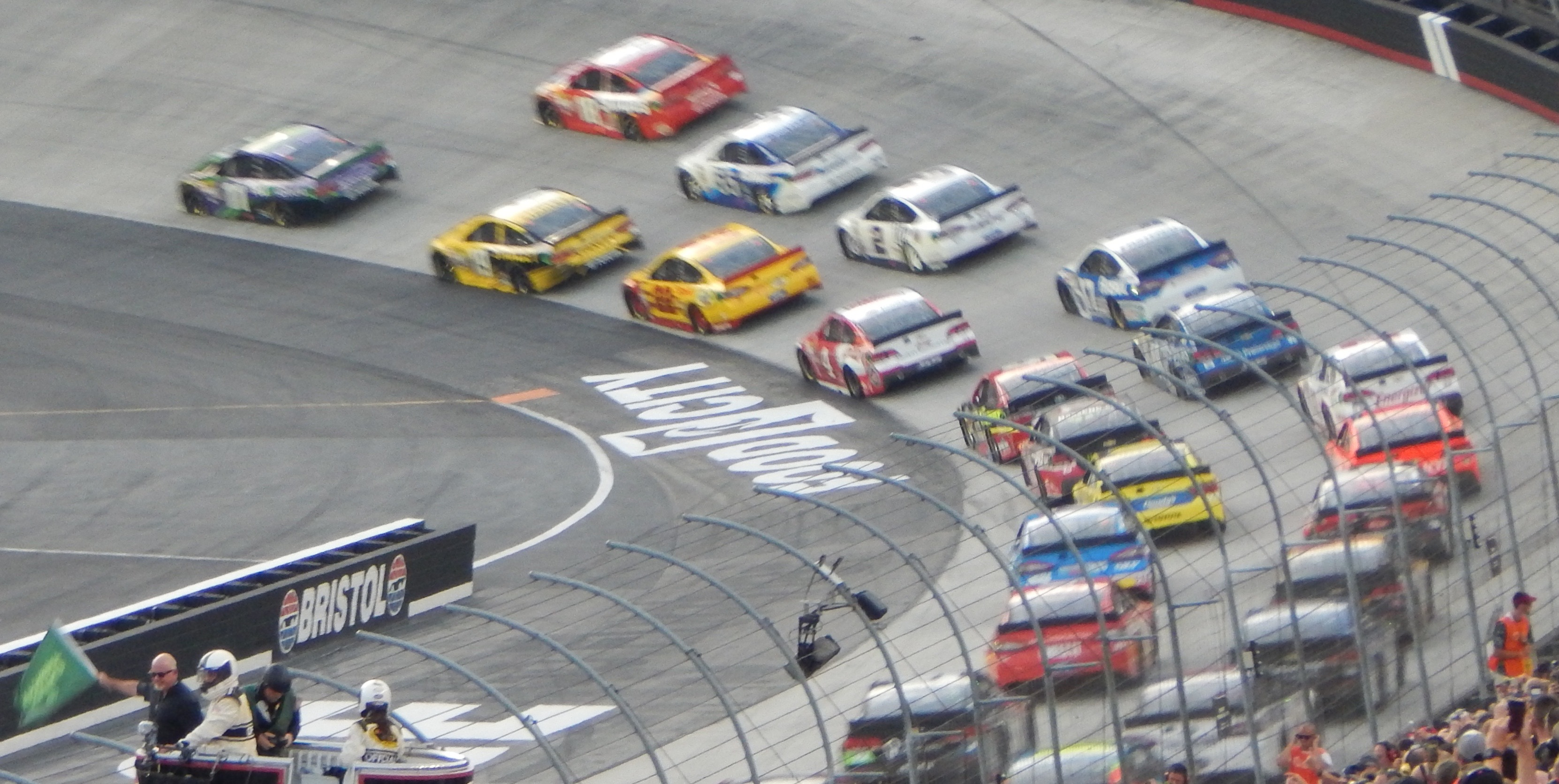 Dave Ramsey waves the green flag for the 2015 Irwin Tools Night Race.